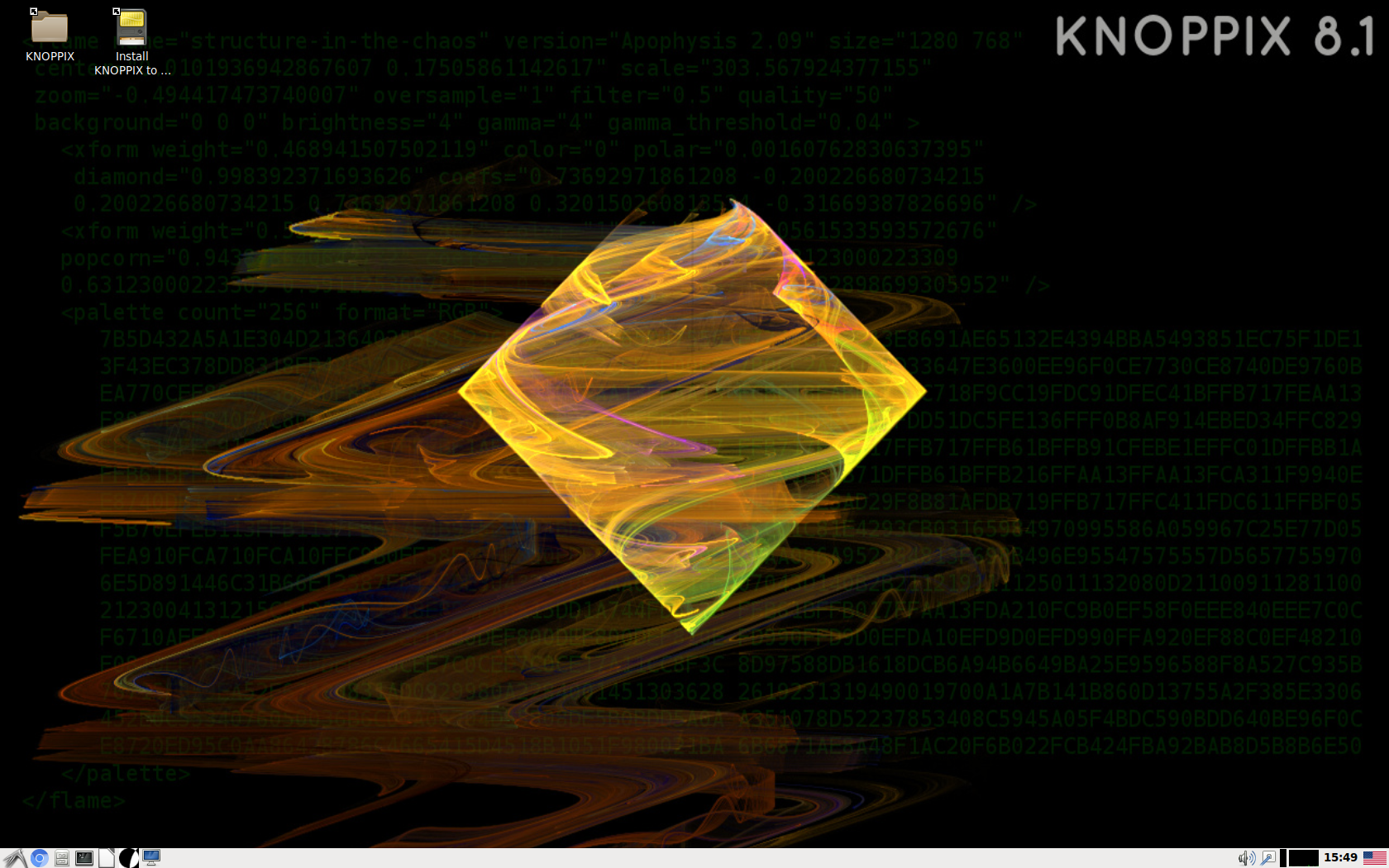 release knoppix 8.1